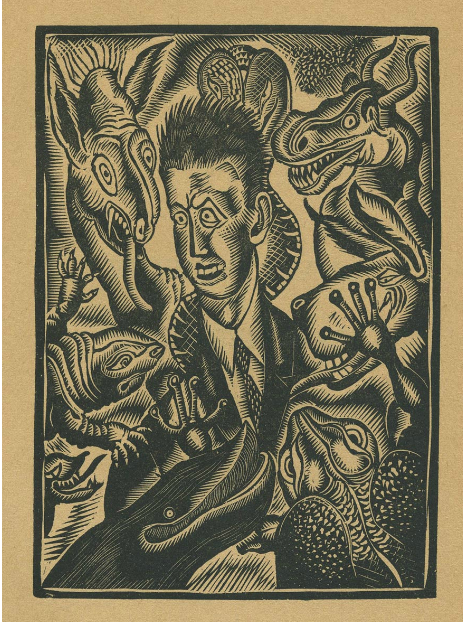 Woodcut printed in Lacretelle, La Vie inquiète de Jean Hermelin, Paris:Fayard.